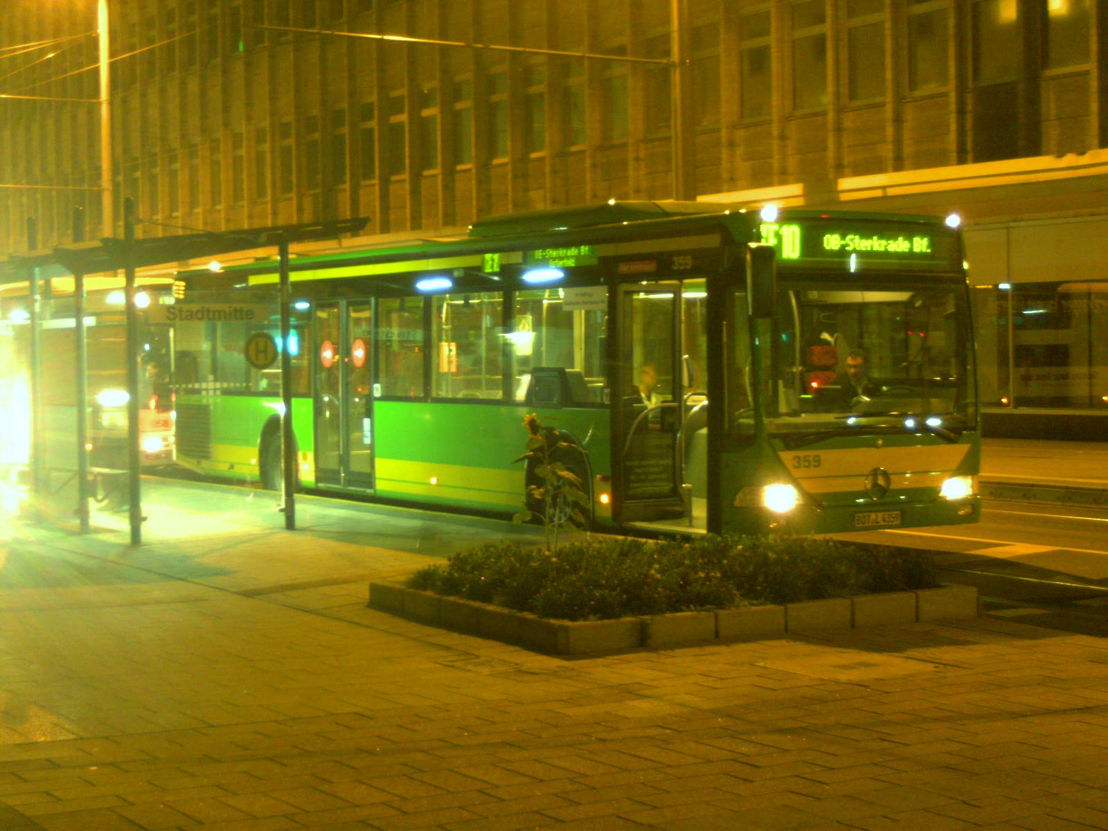 Night express line NE10 in Mülheim-on-Ruhr